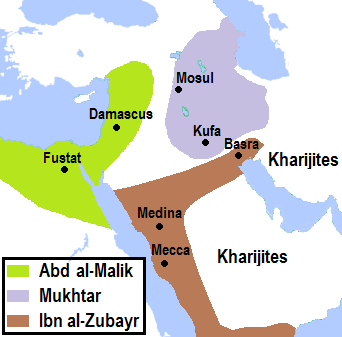 Approximate map of territorial control by the the three contenders of the caliphate during the Second Islamic Civil War (c. 685-687).